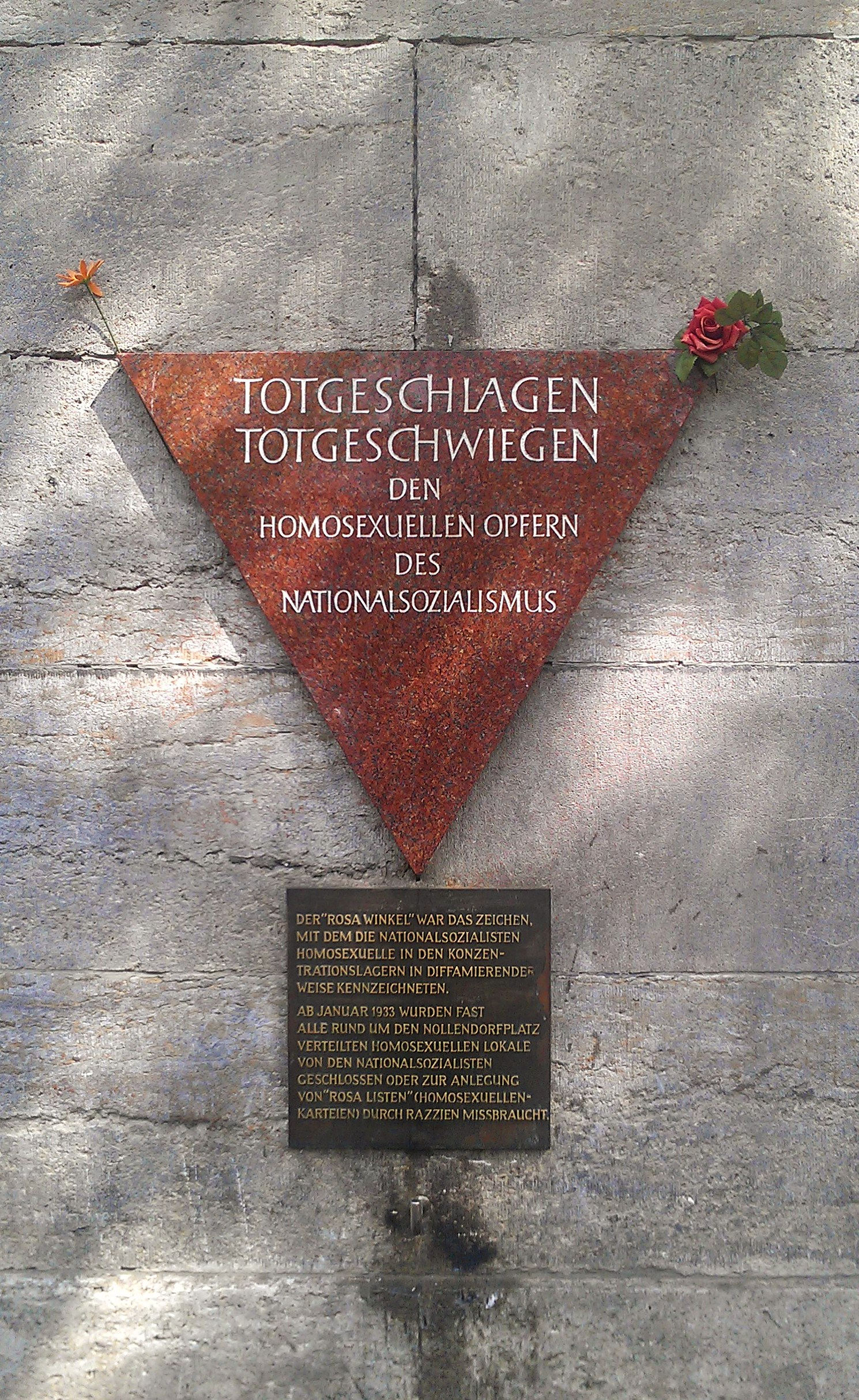 The Memorial to the homosexual victims of Nazism in Nollendorfplatz, Berlin, with flowers pinned to it.